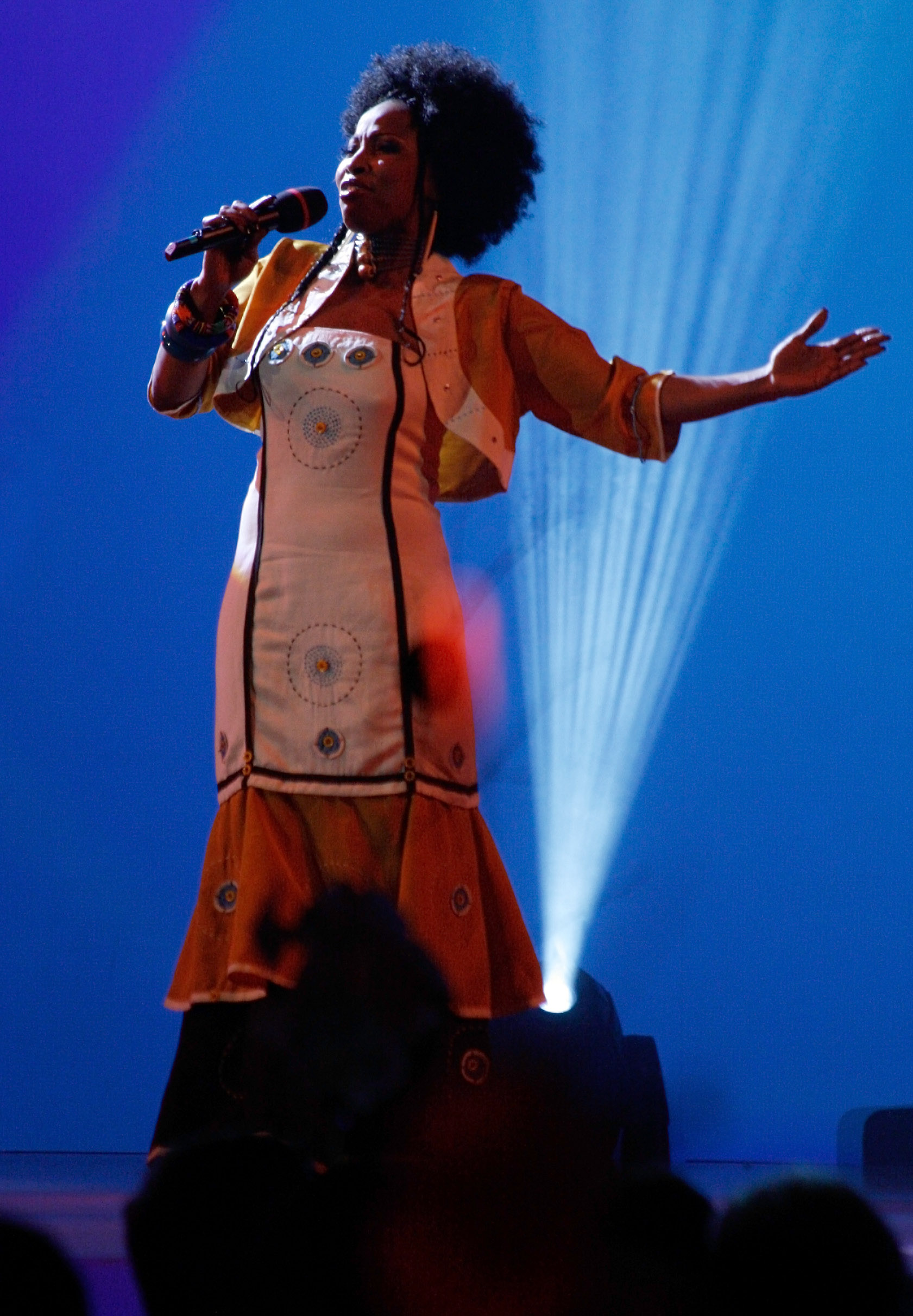 Velile at the presentation of the Austrian Sportspersonalities of the Year 2010 (Eventhotel Pyramide in Vösendorf, Lower Austria).